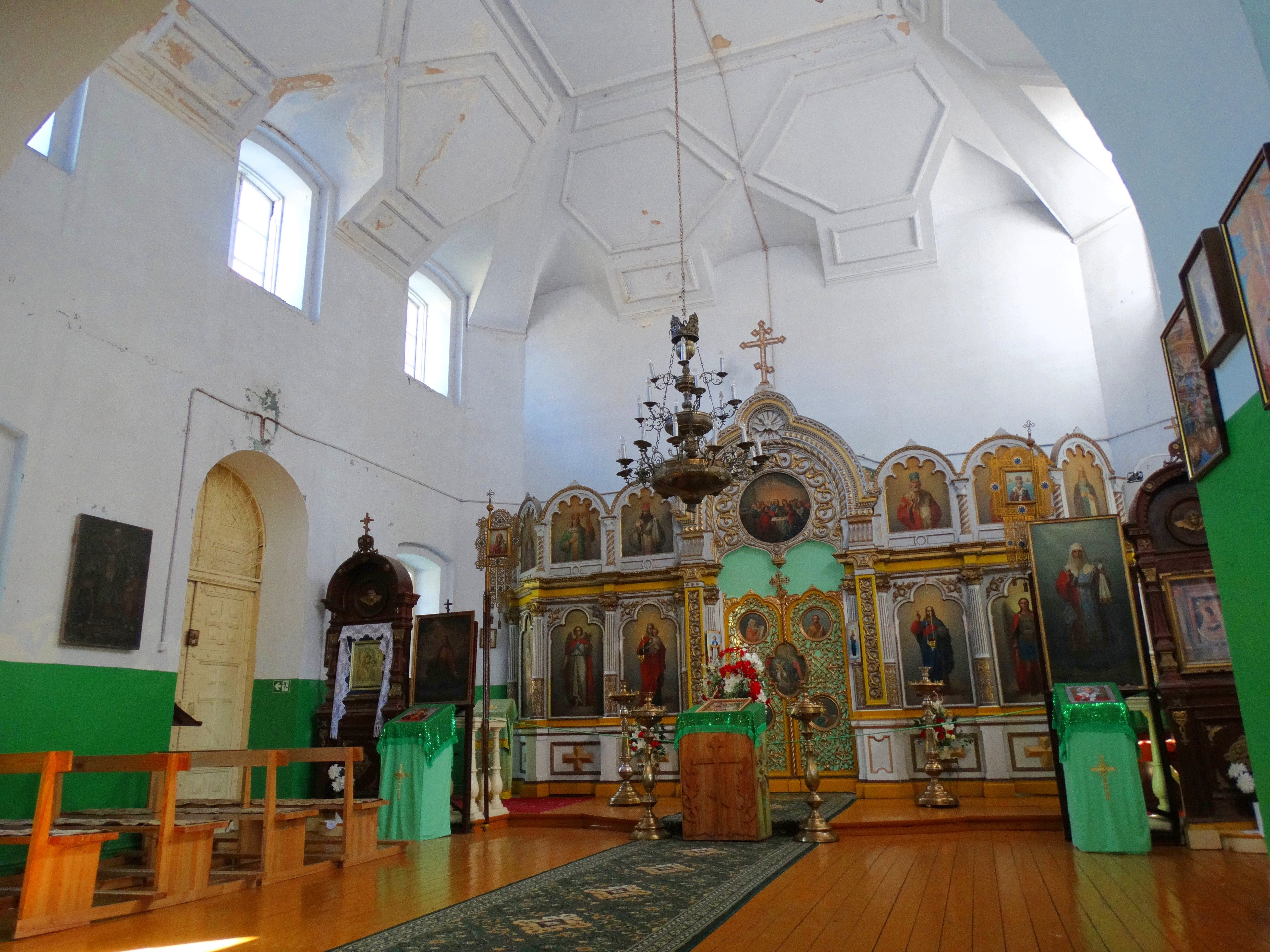 Interior, Orthodox Church, Raseiniai, Lithuania